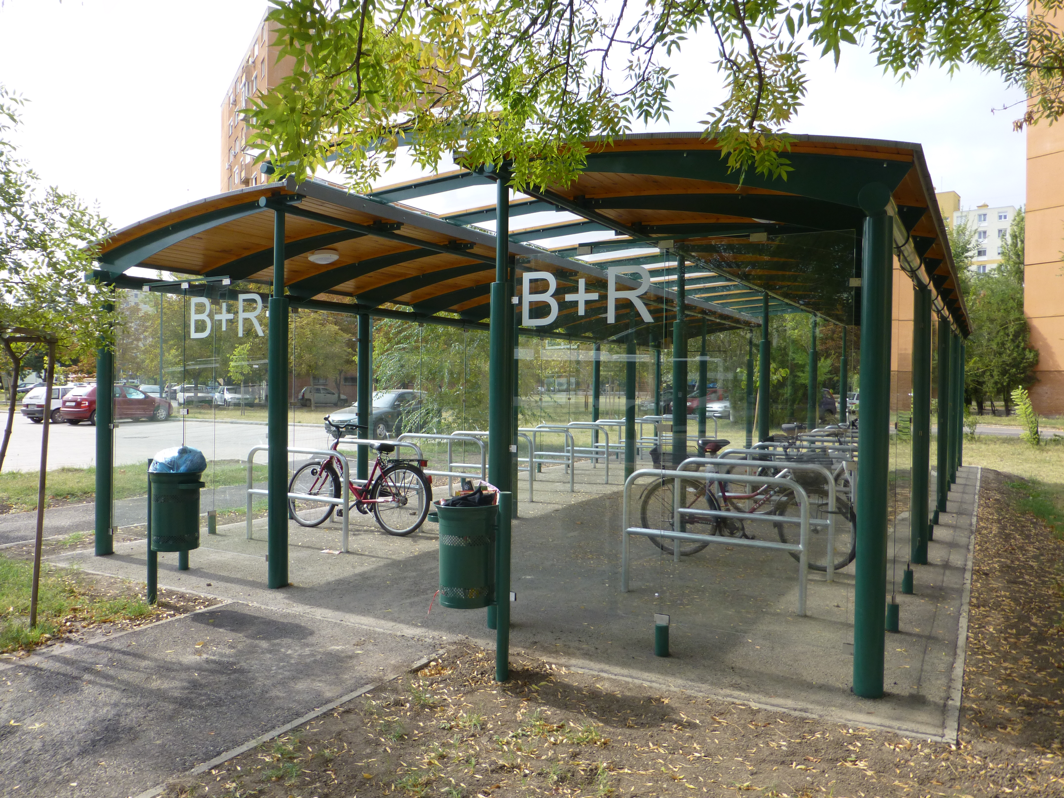 B+R Bicycle rack in Szeged